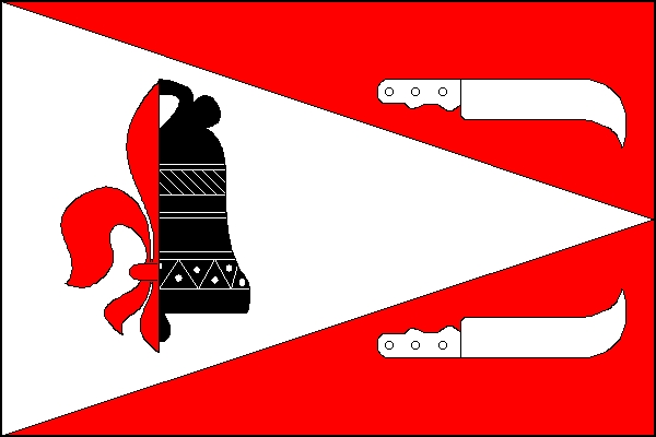 Flag of Uhlířov village, Moravian-Silesian Region, Czech republic. Česky: Vlajka obce Uhlířov nacházející se v Moravskoslezském kraji. (Blason: Červený list s bílým žerďovým klínem s vrcholem na středu vlajícího okraje. V žerďové části půl červené lilie přiléhající k černému půlzvonu, v červených polích bílé nože ostřím k sobě. Poměr šířky k délce listu je 2:3.)